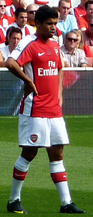 Eduardo da Silva